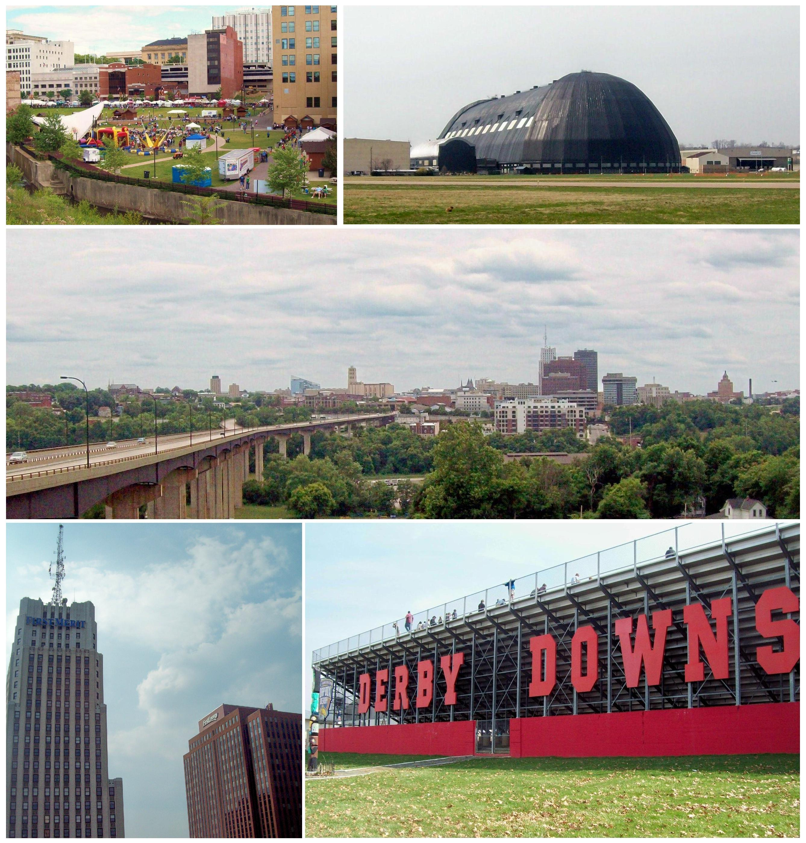 Akron, Ohio